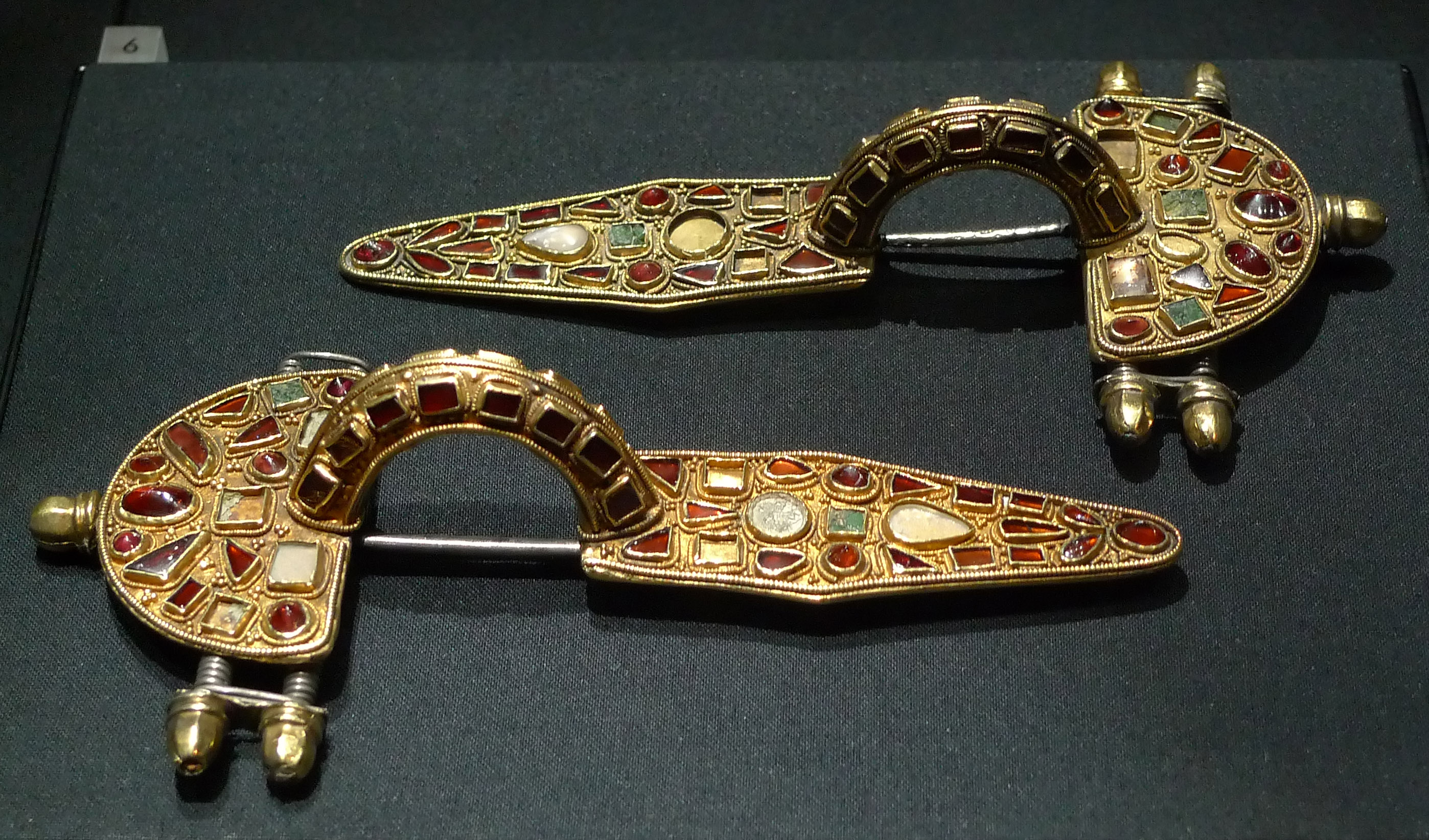 East Germanic womens' fibulae, goldfoil on silver with inlaid garnet, glass, enamel. From the Untersiebenbrunn grave (1910), early 5th century.